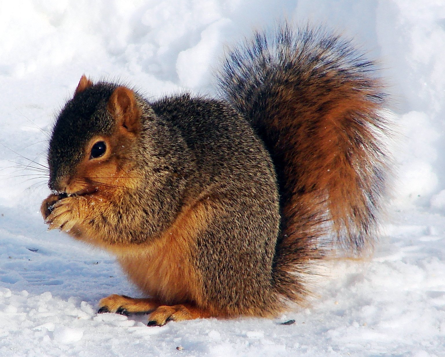 Sciurus niger - Fox Squirrel - Cross Plains, WI, USA